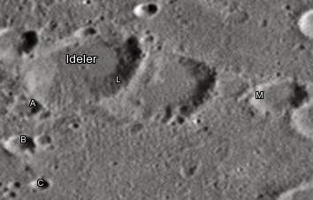 Ideler lunar crater as seen from Earth with satellite craters labeled